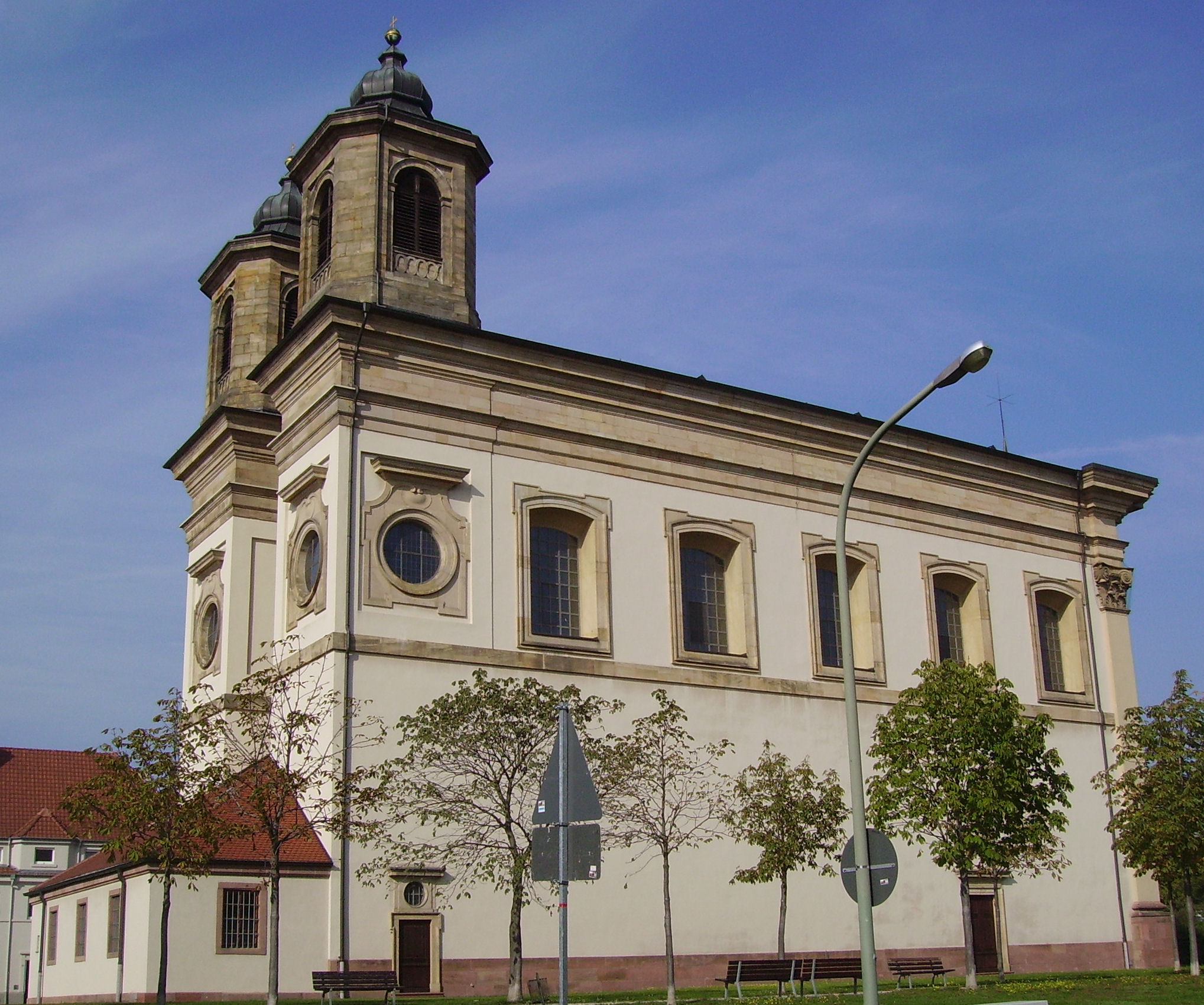 church in Oggersheim, part of Ludwigshafen in Rhineland-Palatinate (Germany)